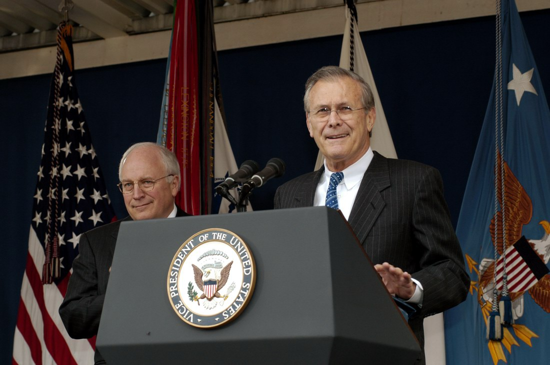 Secretary of Defense Donald H. Rumsfeld (right) introduces Vice President Dick Cheney at a Pentagon ceremony marking the 228th Army birthday on June 13, 2003.